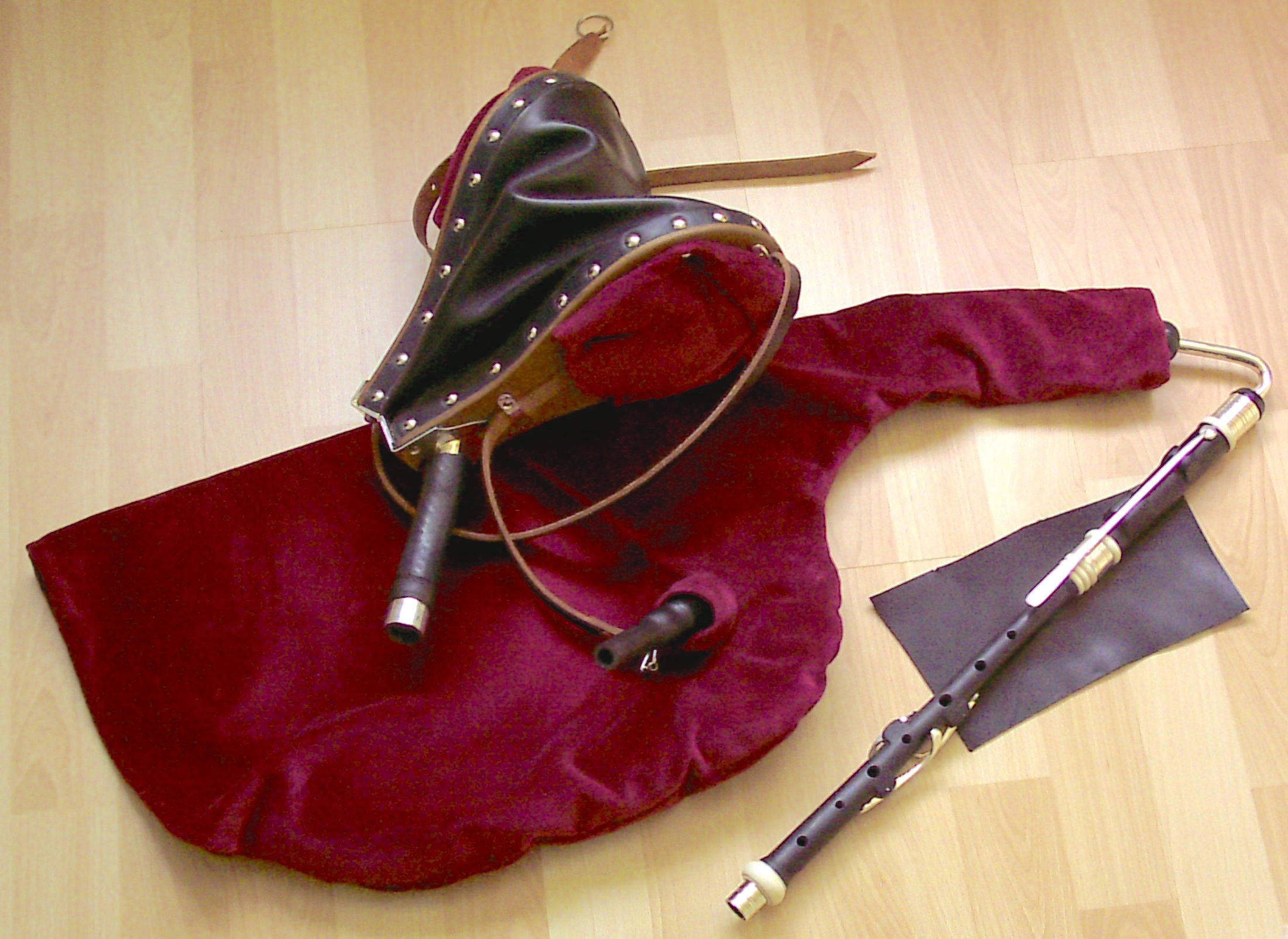 Uillean pipes - practice set